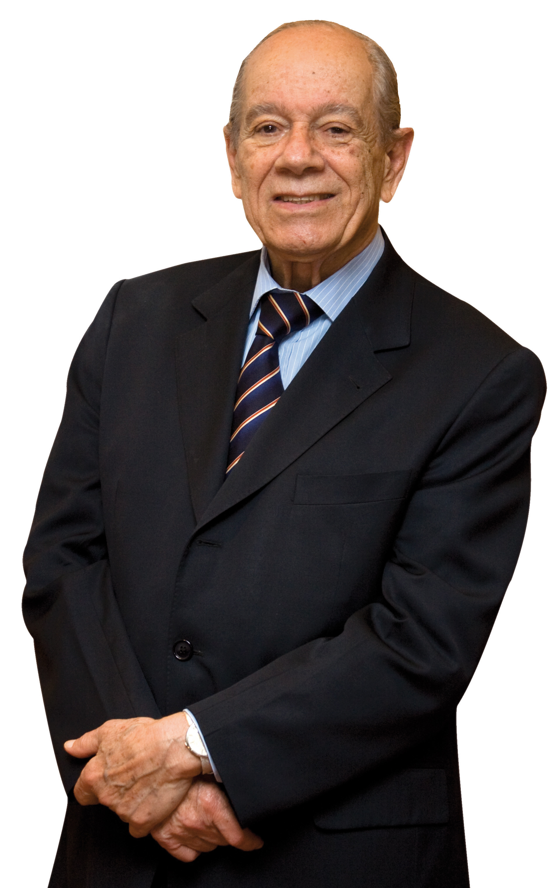 Ernane Galvêas, economic consultant of CNC (Brazil)